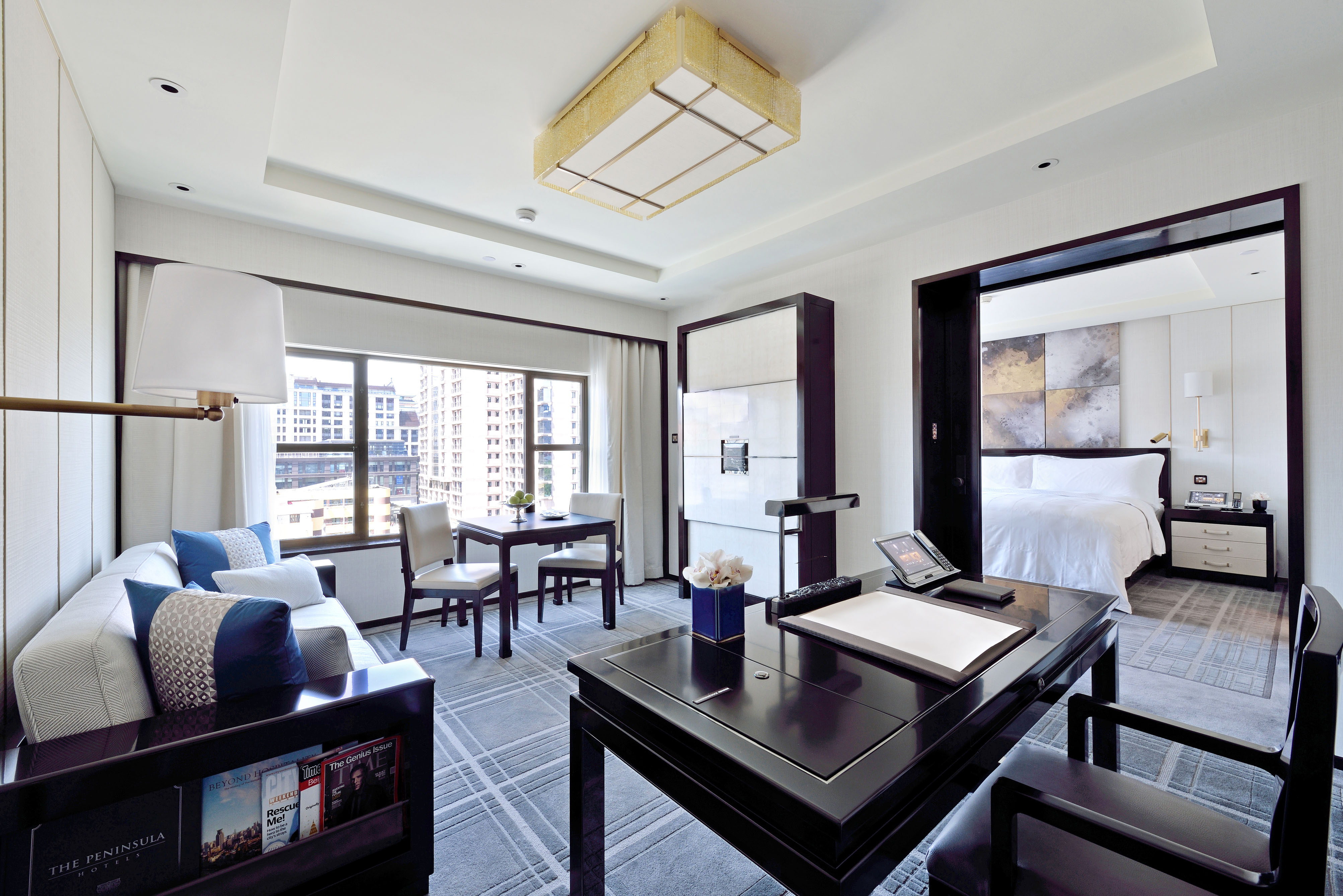 New Guestrooms